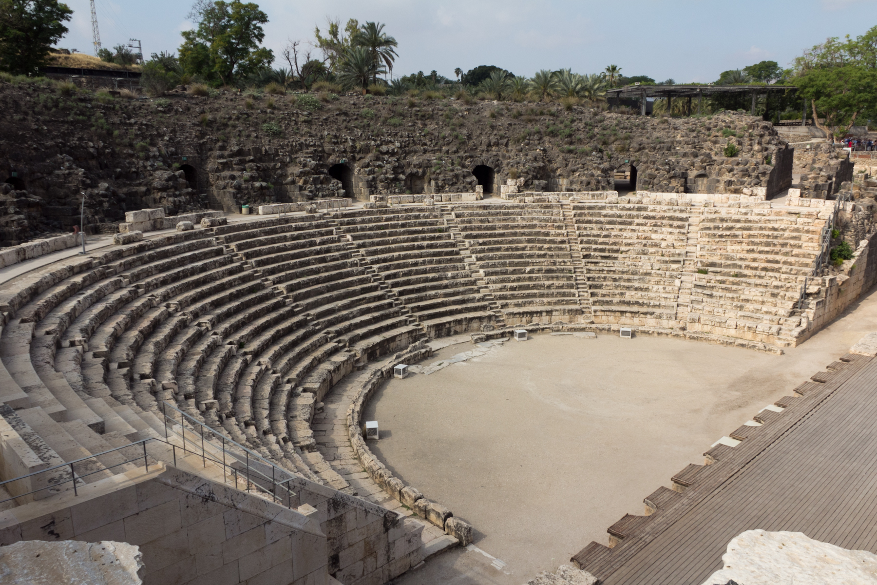 Roman Theatre of Scythopolis, Beit Shean, Israel